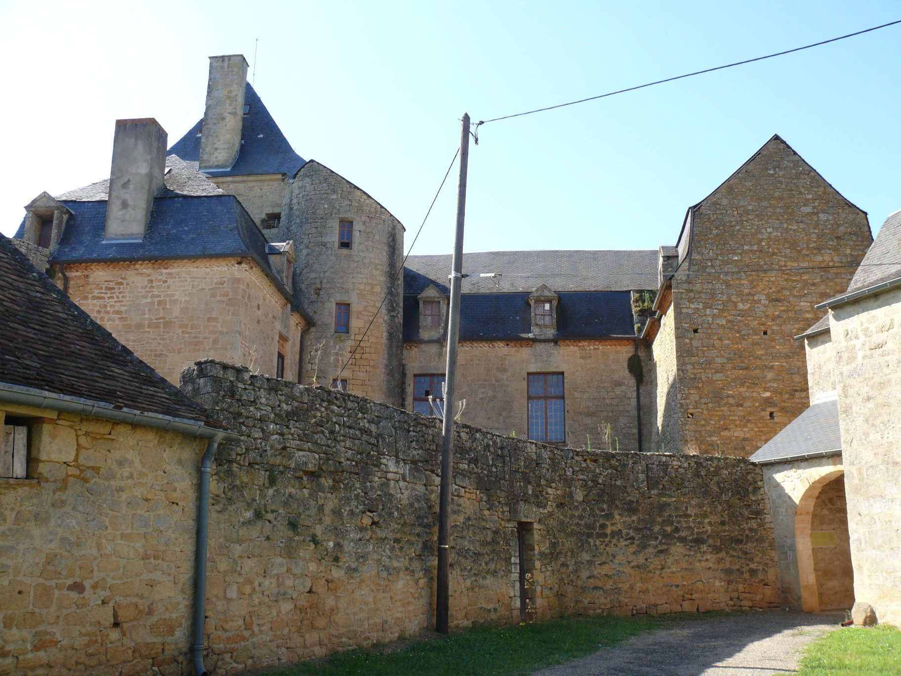 The castle of Masclat (Lot, Midi-Pyrénées, France).